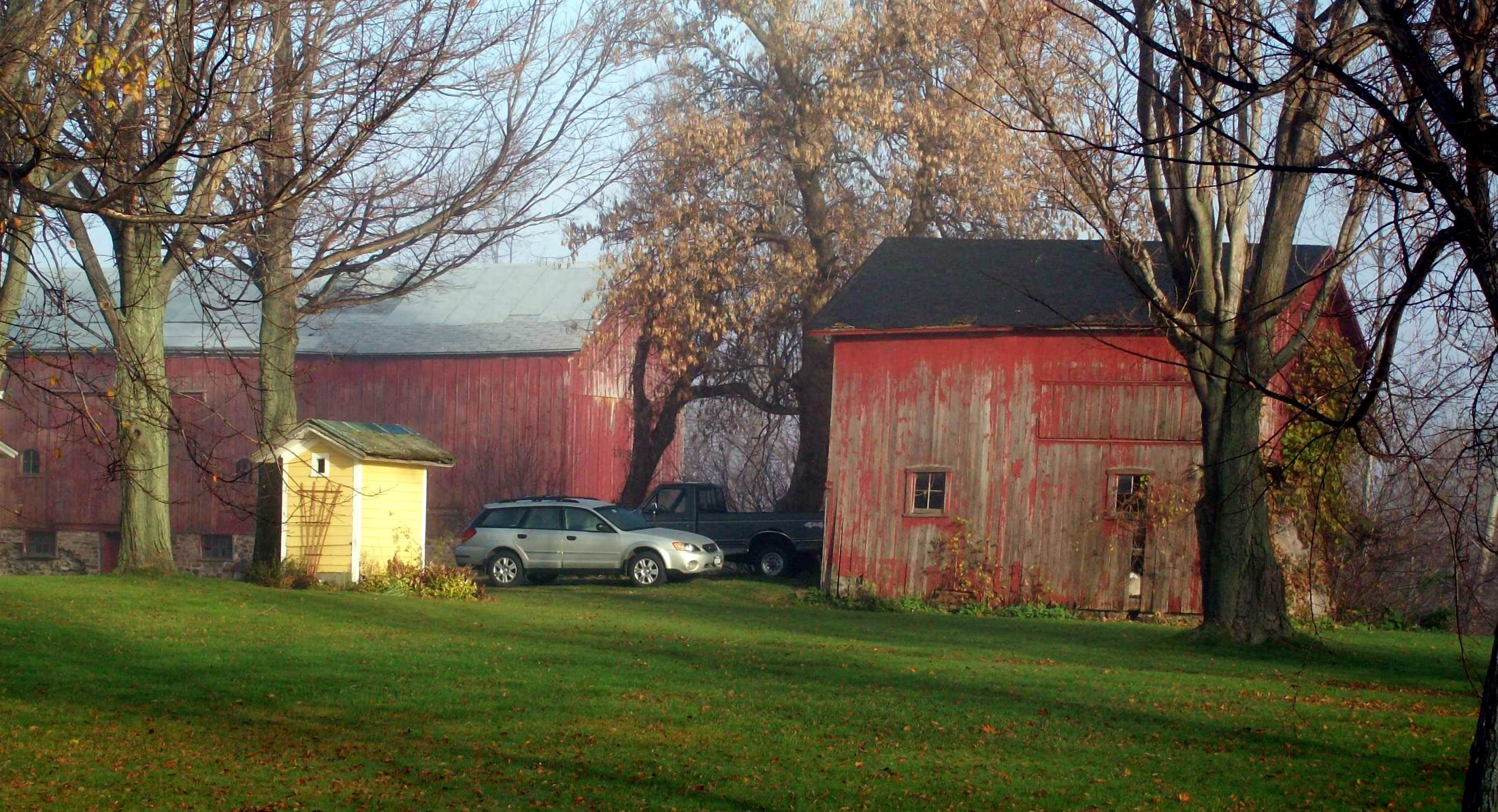 Benjamin Franklin Gates House Barn, Carriage House & Privy, Barre NY, November 2010